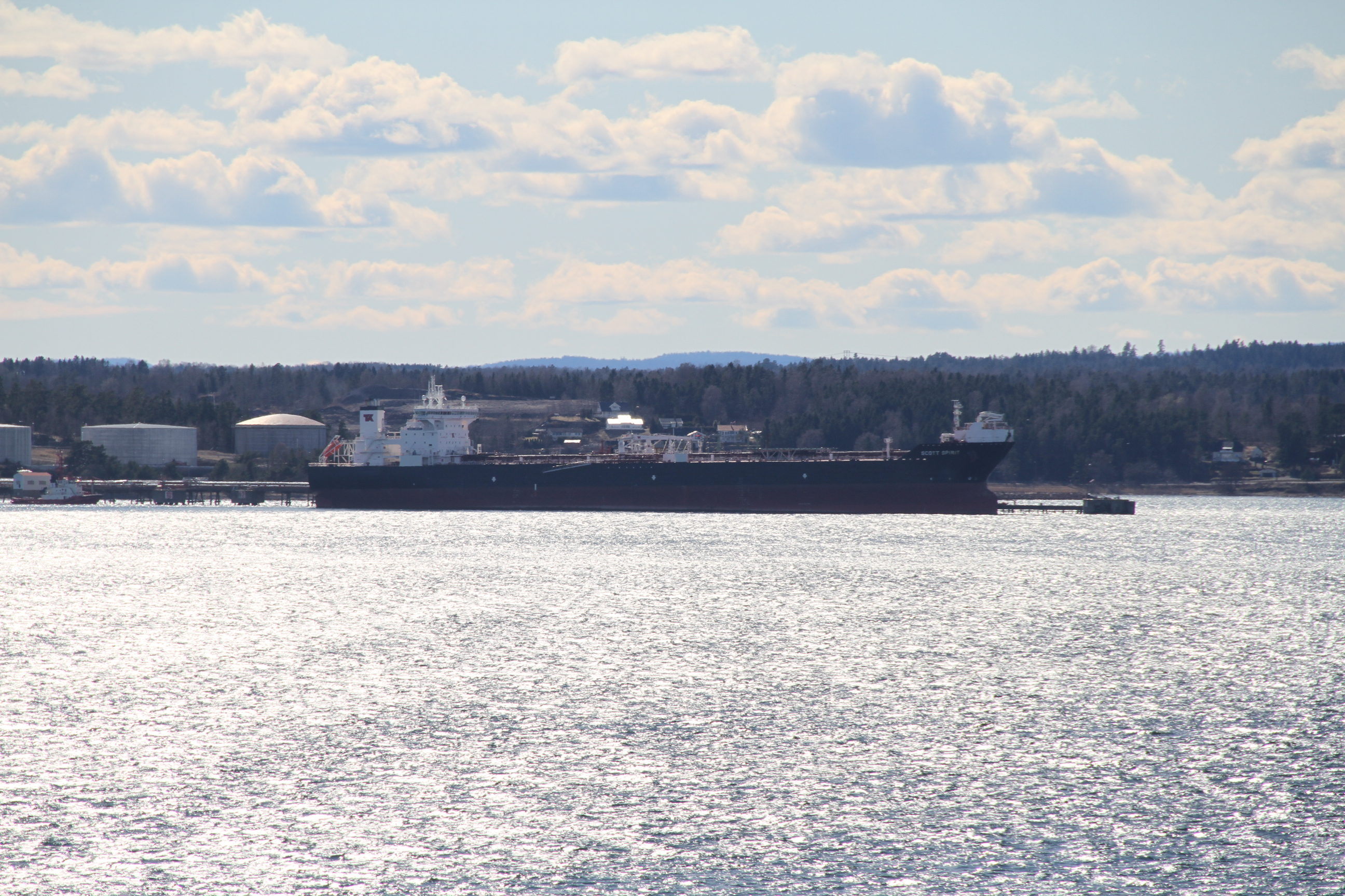 Image of MT Scott Spirit, in the port of the Slagentangen Rafinery - East Norway.